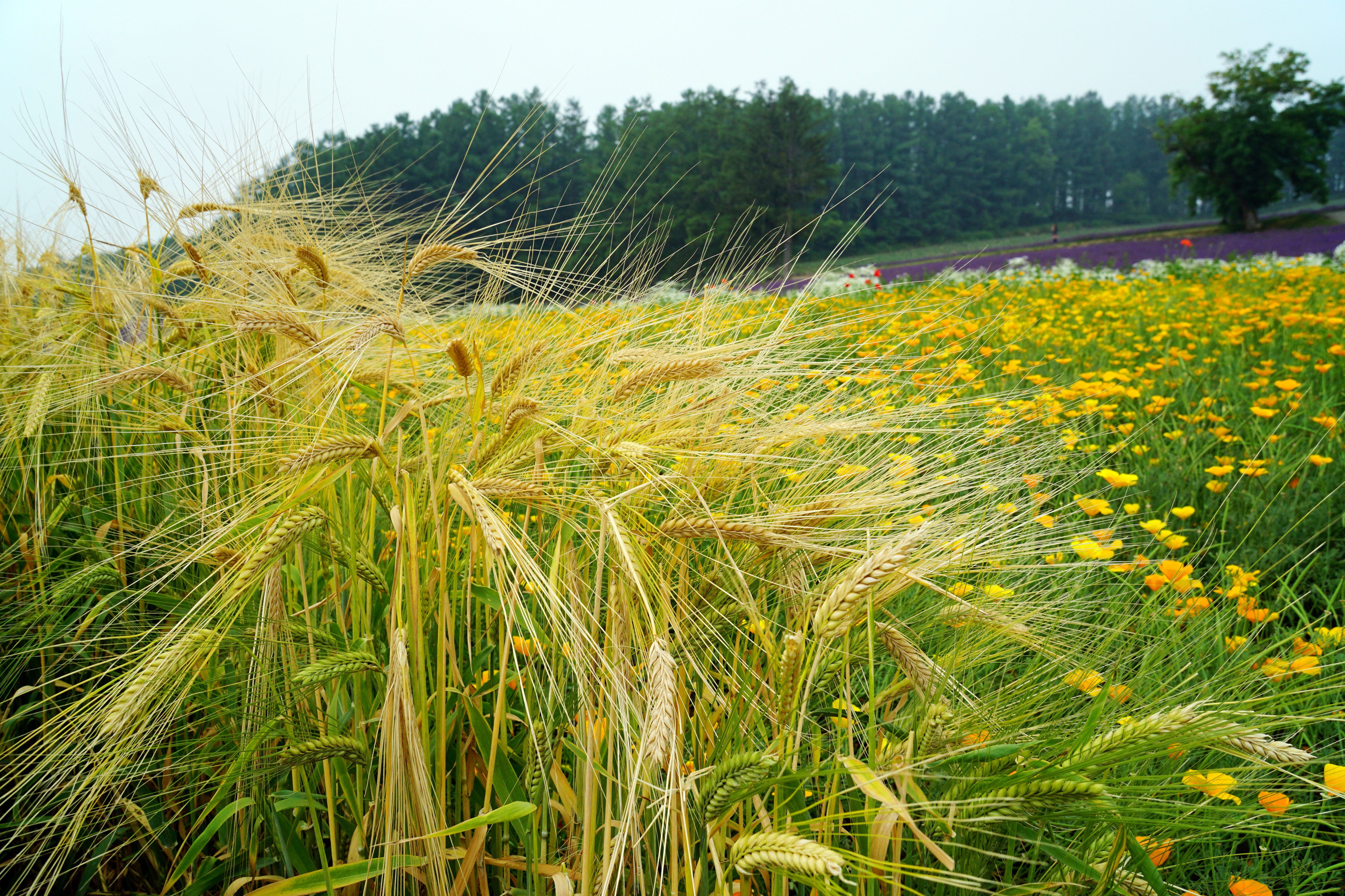 At Farm Tomita in Nakafurano, Hokkaido, Japan.